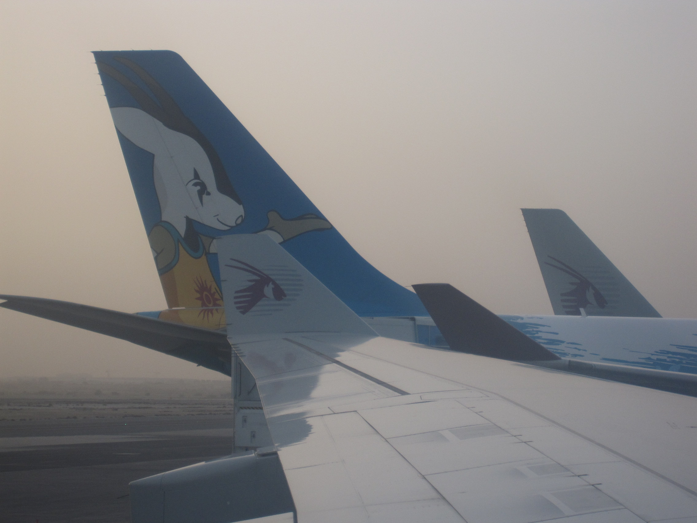 Three Vertical Stabilizers of airplanes of Qatar Airwas standing at the Doha International Airport. One of the airplanes is showing the mark of 15th Asian Games Doha 2006.